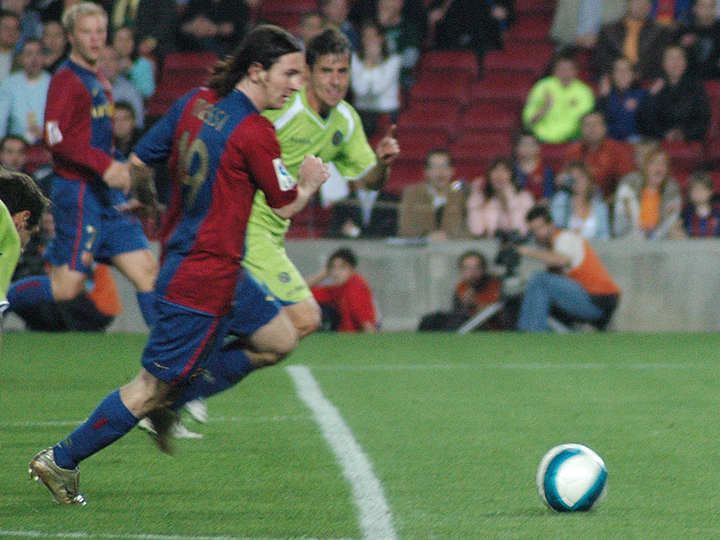 Lionel Messi, Futbol Club Barcelona's player, seconds before scoring the 2-0 during the match FC Barcelona-Getafe CF.